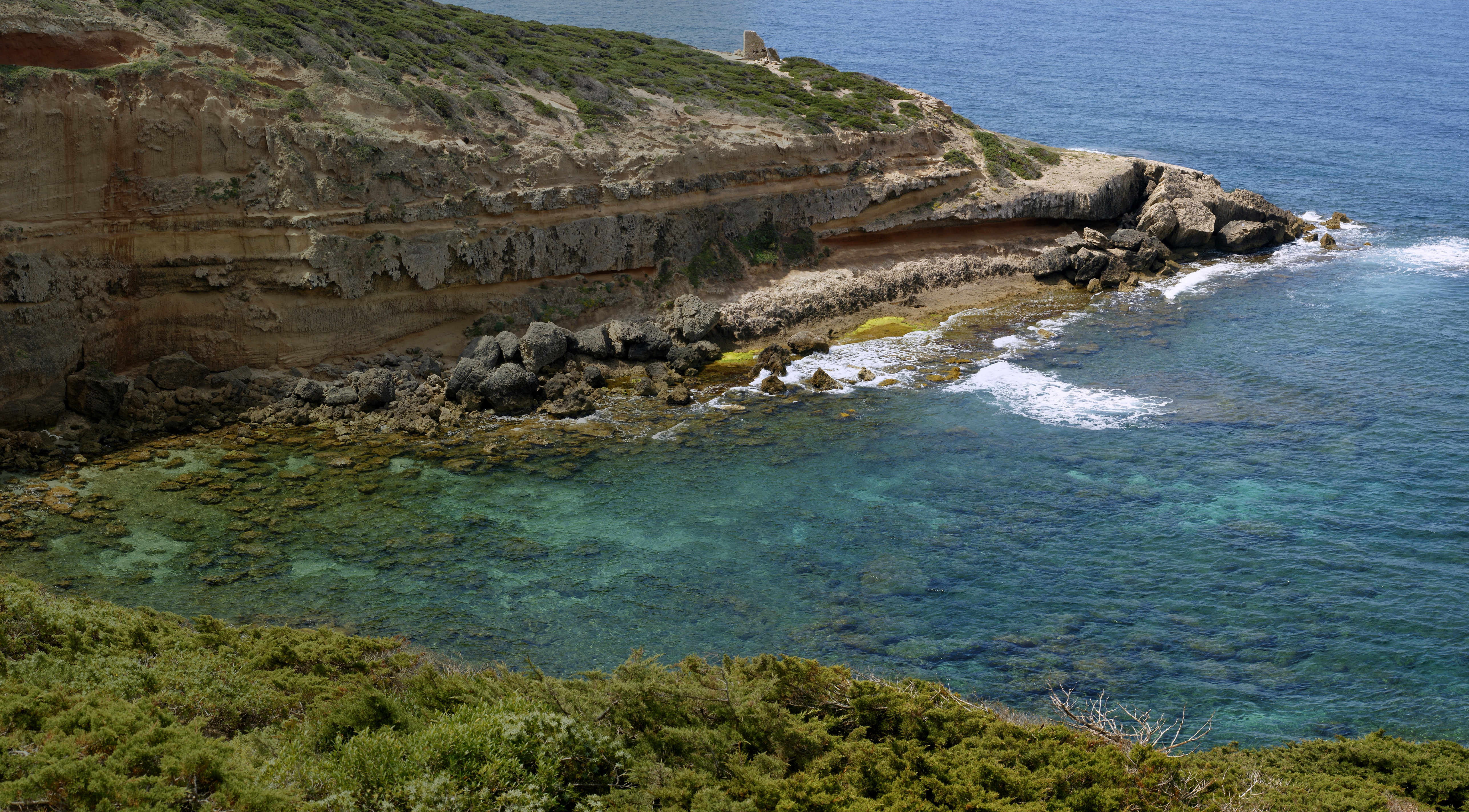 Rocky coast at Capo Mannu in Oristano province, Sardinia, Italy View in interactive viewer